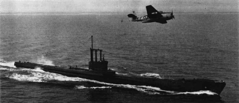 A Grumman Avenger AS.3 of the Royal Canadian Navy flying over the British submarine HMS Artful (P456) in the mid-1950s.